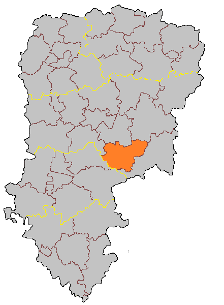 Кантон Краон на карте департамента Эна